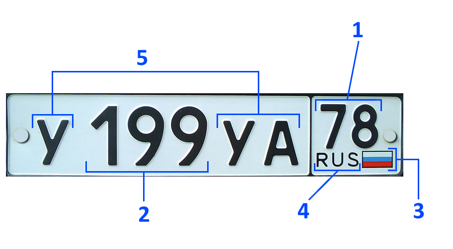 Russian License Plate (Description). Version for other languages.